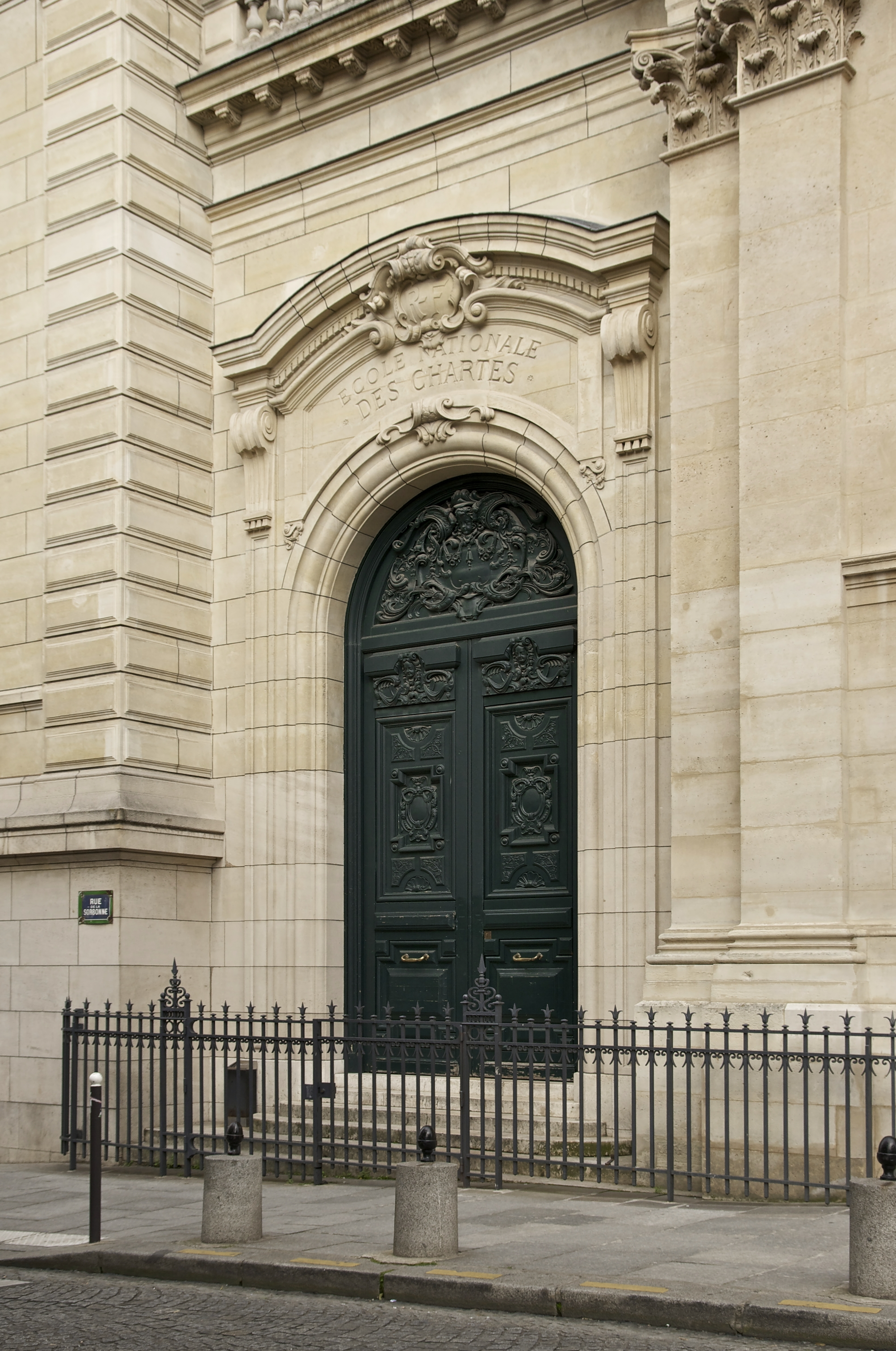 The main entrance of the Ecole Nationale des Chartes at the Sorbonne, University of Paris, France.